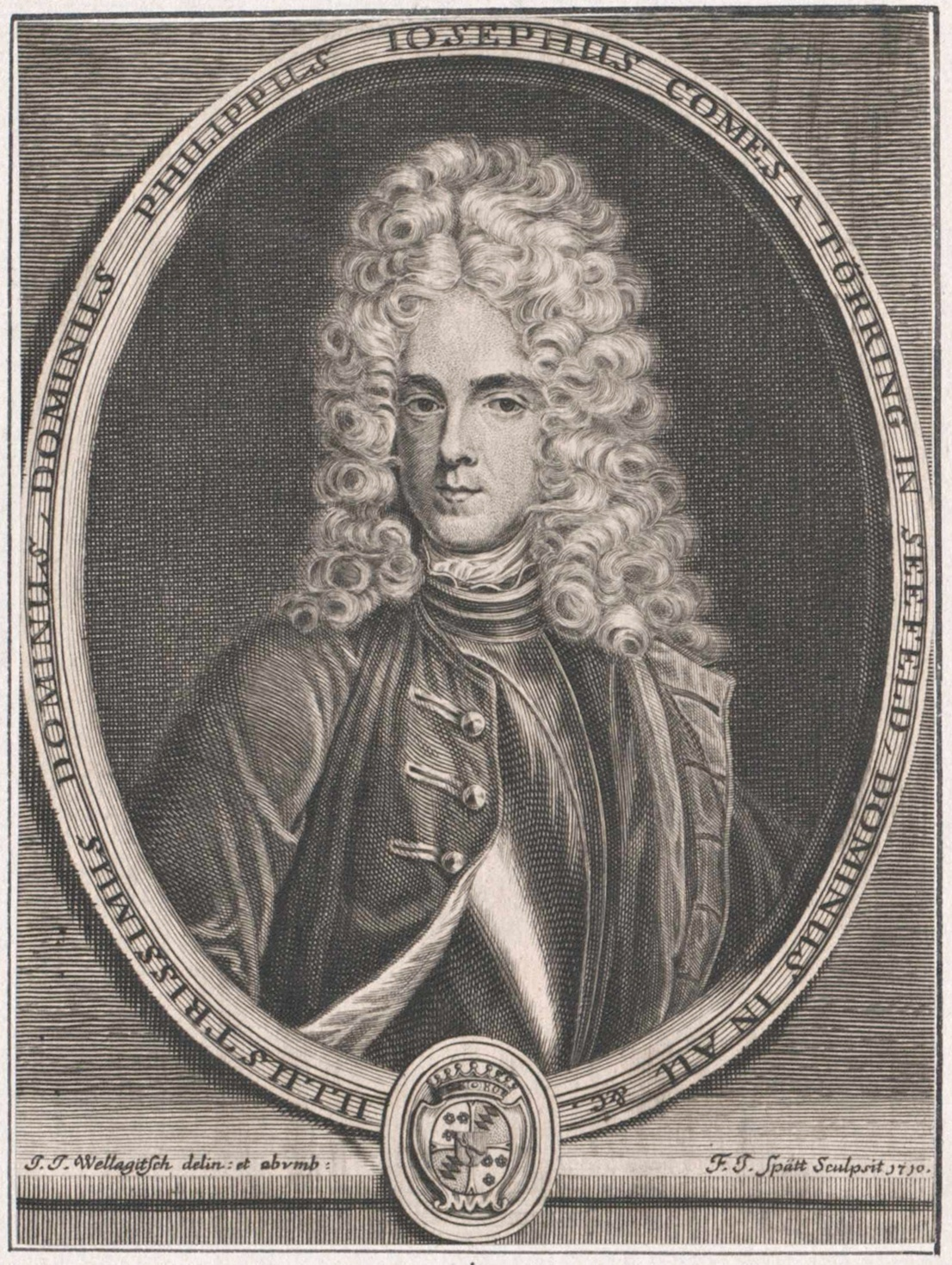 Graf Philipp Joseph von Toerring Seefeld (1680-1735), bayerischer Haushofmeister